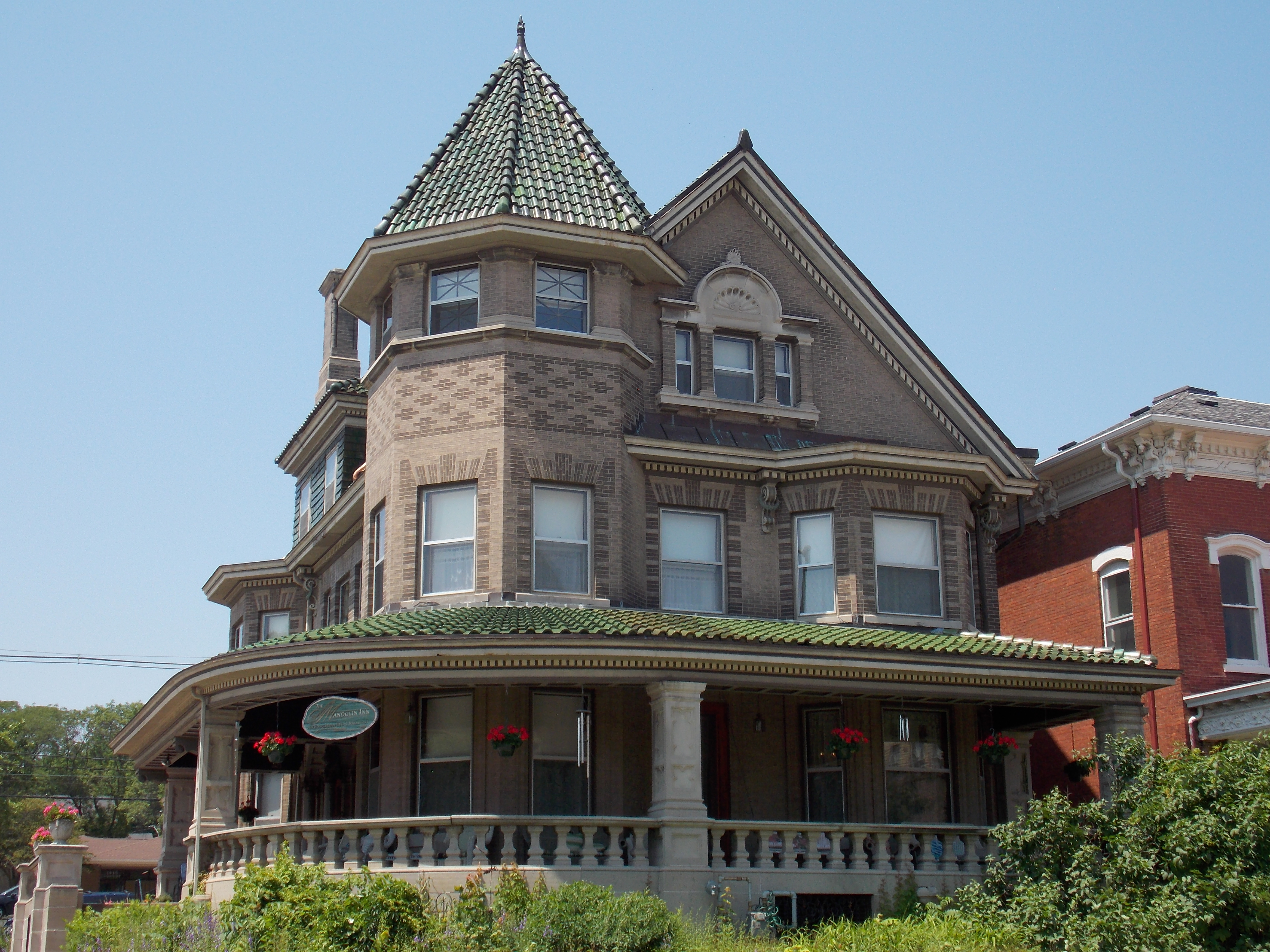 The Schrup Residence is a contributing property in the Jackson Park Historic District in Dubuque, Iowa. Fridolin Heer, architect.